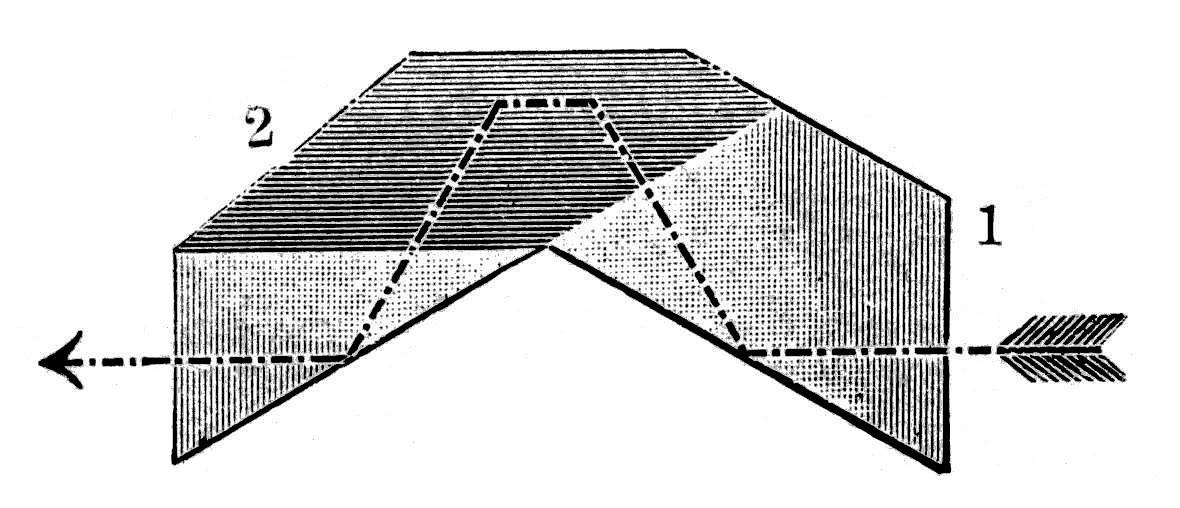 Prism without parallel translation of the beam of light